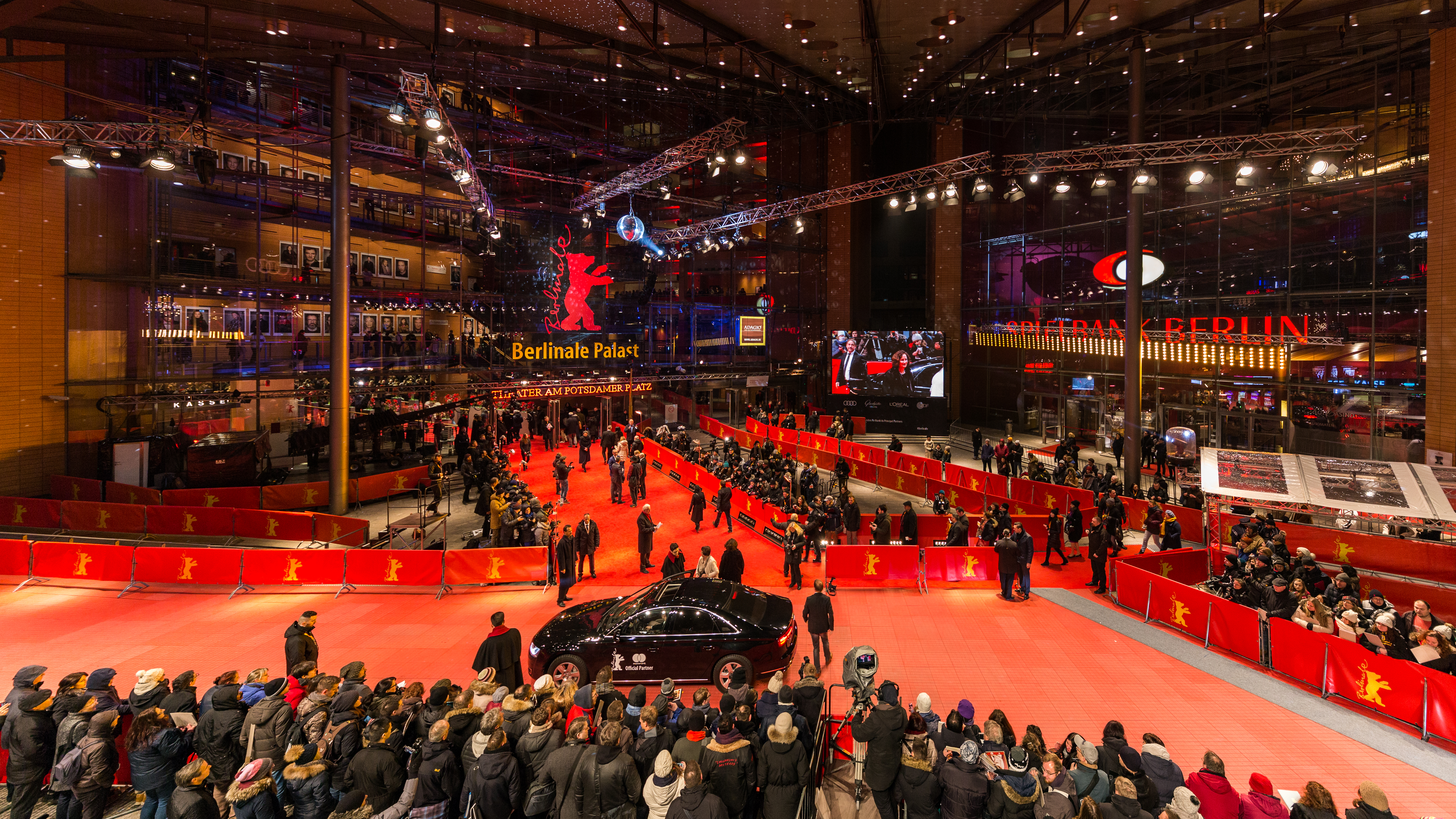 The red carpet during at the Berlinale Palast the the berlinale premier of Viceroy's House